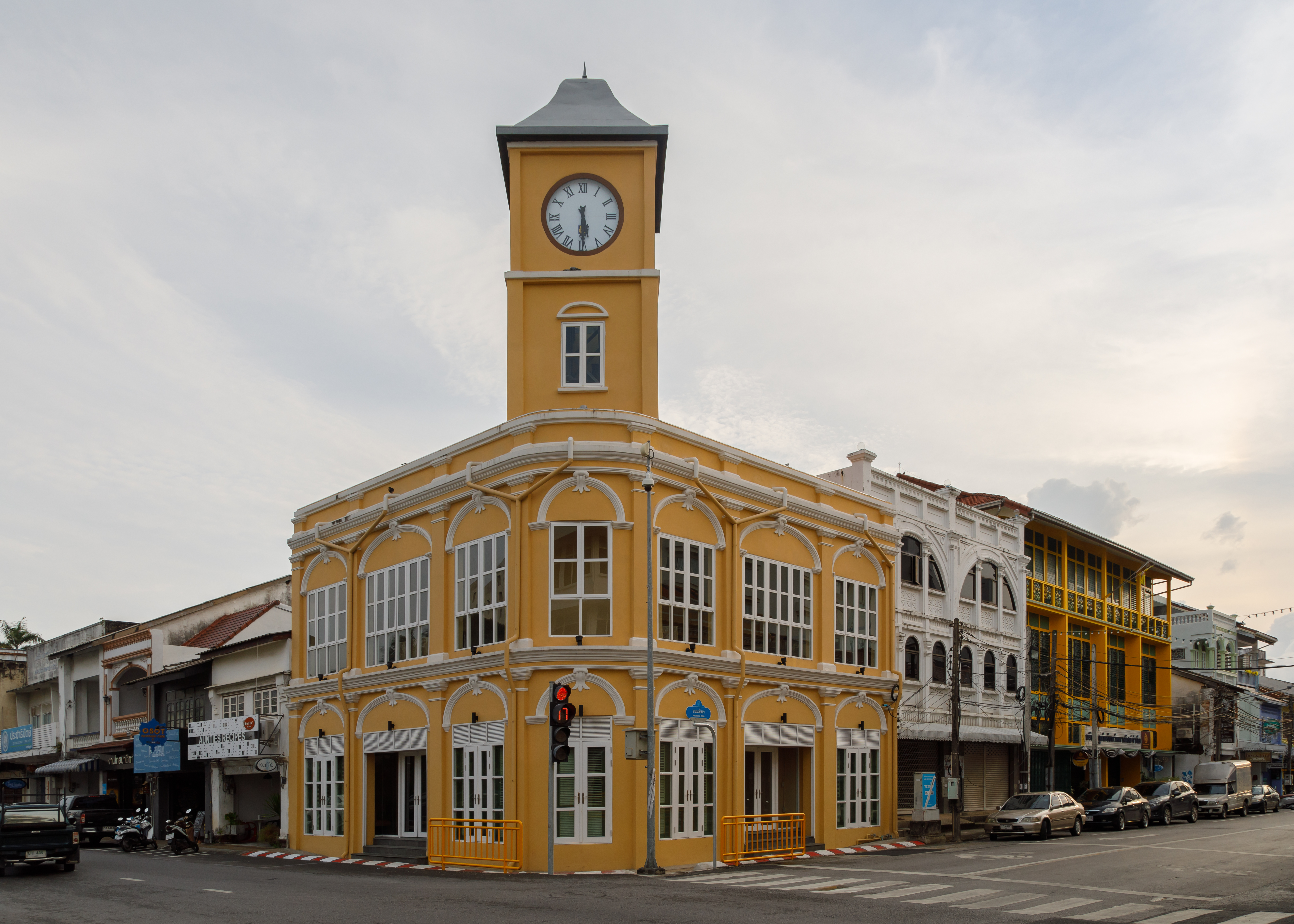 Phuket, Thailand: The old Police Station of Phuket Municipality